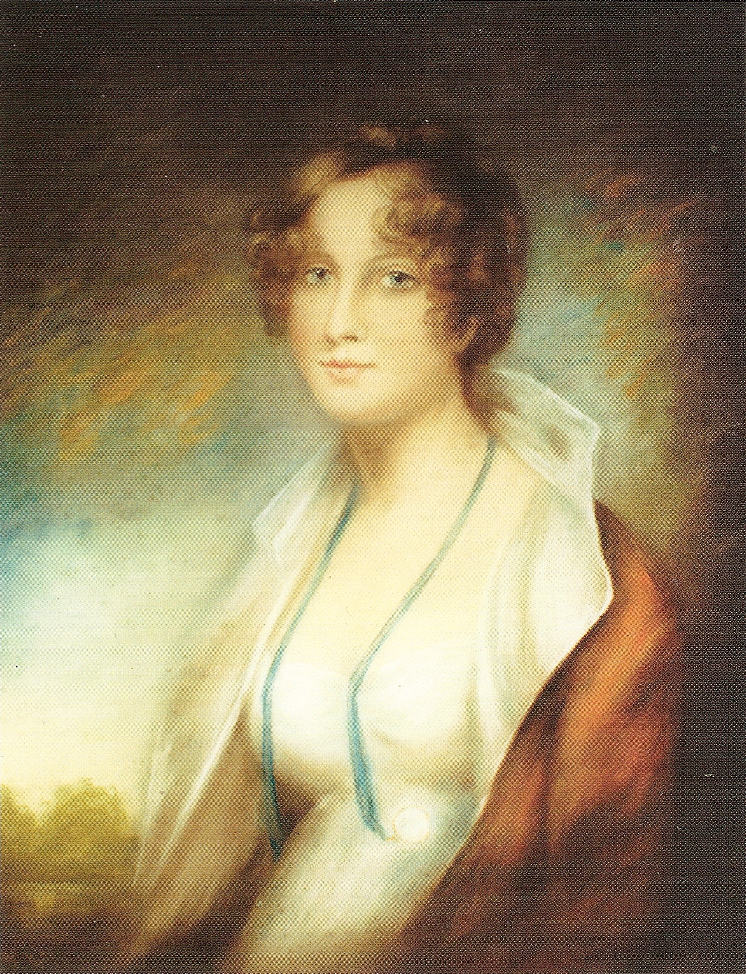 Painting of Mrs Alexander Campbell of Possil by Sir Henry Raeburn